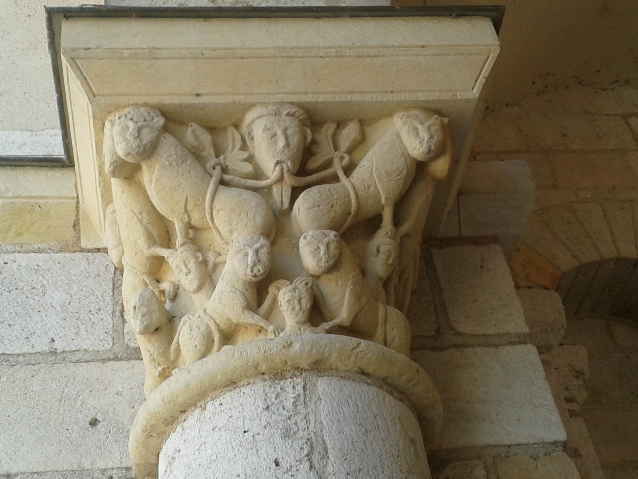 Abbaye de Saint-Benoît-sur-Loire truncated belltower Green man